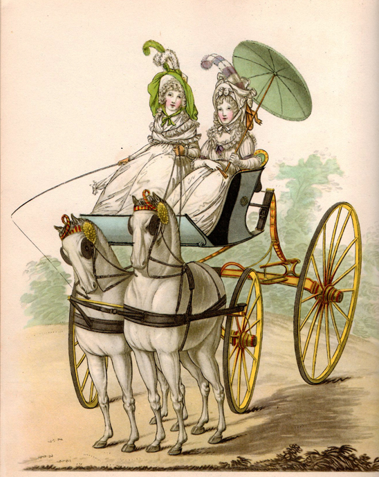 Two Ladies, en neglige, taking an airing in a phaeton. Left lady: Headdress: white stamp- paper hat, trimmed with a green riband and tied down with the same. One green and one yellow feather placed on the left side. Green gauze veil. The hair in small curls; plain chignon. Plain calico morning dress with long sleeves; the petticoat trimmed with a narrow flounce. Plain lawn handkerchief, green sash, lawn cloak trimmed with lace and tied behind, york tan gloves, yellow shoes. Right lady: Headdress: straw-coloured hat, trimmed with orange and purple ribands, and a white lawn handkerchief, embroidered in lilac, tied down with a white riband. One lilac and white cross-striped large ostrich feather on the left side, the hair in light curls and hanging down in ringlets behind, bound with a half-handkerchief tied into a large bow in the front. Chemise of spotted muslin, trimmed with a double plaiting of broad lace about the waist, tied in front by a lilac riband, short loose sleeves, tied in the middle with the same riband. Lilac-coloured sash tied behind, jonquille-coloured gloves and shoes.